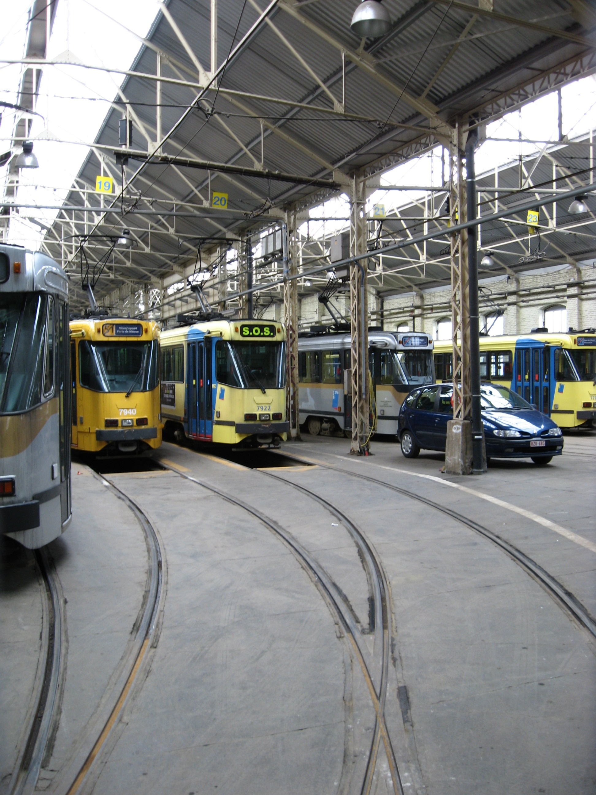 Look inside Molenbeek depot